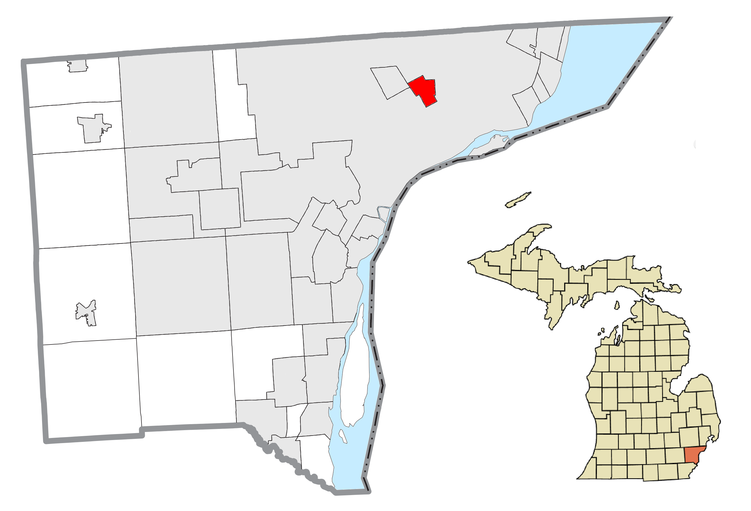 Hamtramck, MI